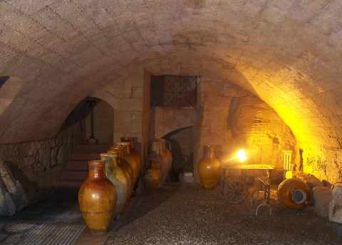 Desciption: Hypogeum De Beaumont Bonelli Bellacicco amphitheatre amphore hall (Taranto), Photographer: --Asia Date: 8.5.2006